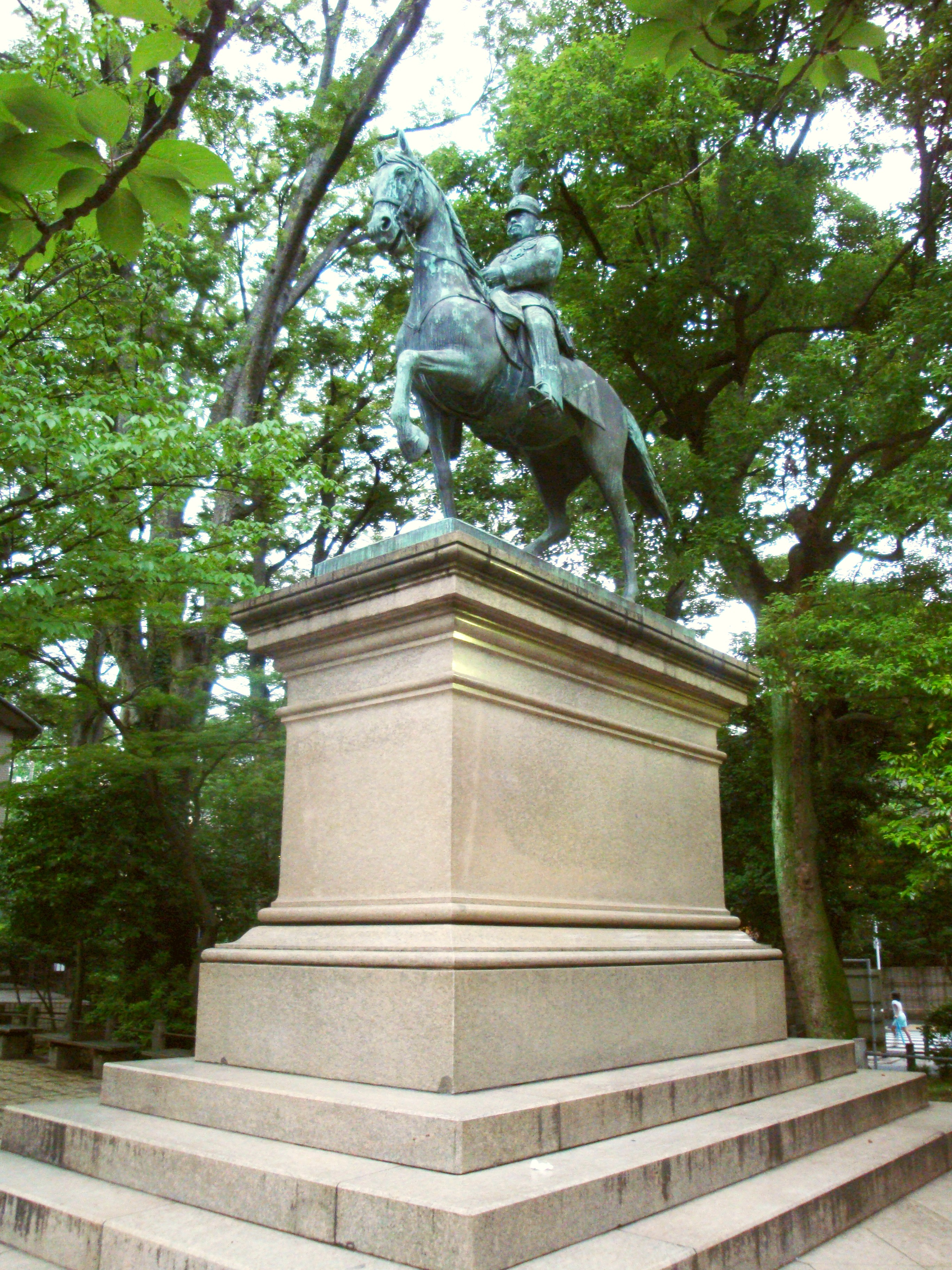 Arisugawa-no-miya Memorial Park. A statue of Prince Arisugawa Taruhito